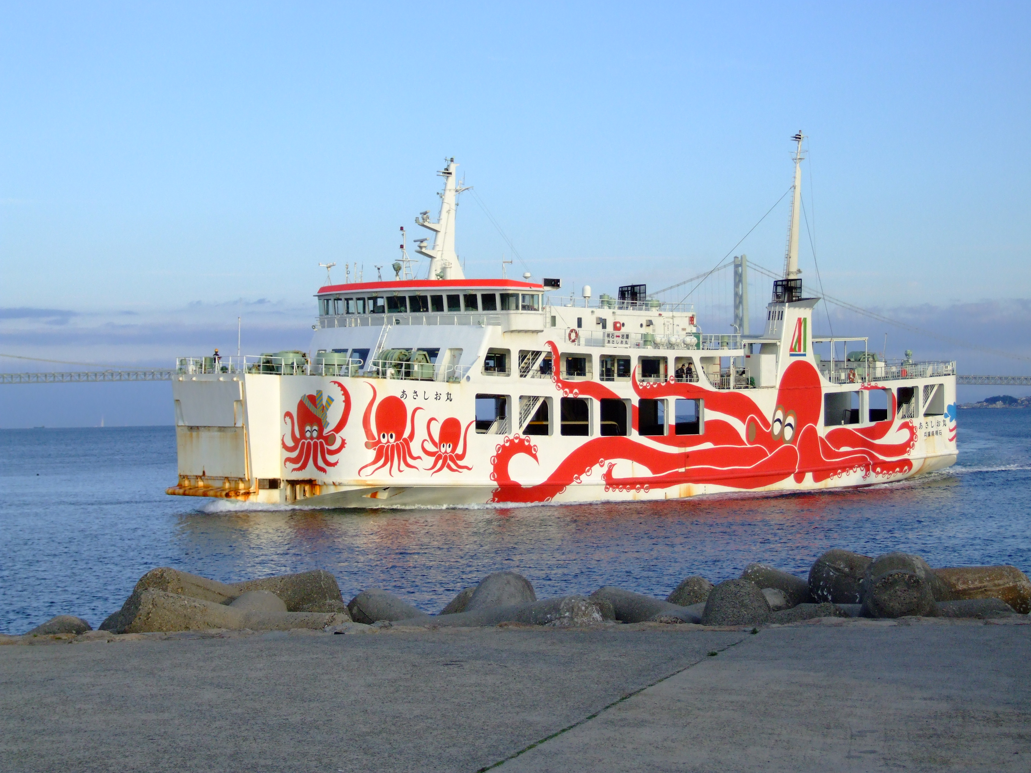 Asashio Maru of Akashi Awaji Ferry (TAKO Ferry), Akashi port, Hyogo, Japan